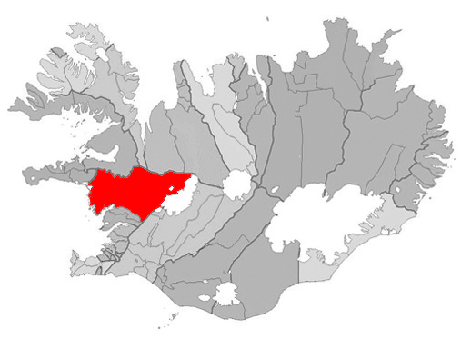 Based on Municipalities of Iceland.png.